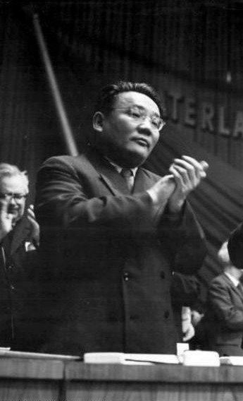 Yumjaagiin Tsedenbal, first secretary of the Central Committee of the Mongolian Revolutionary People's Party, at the VI-th party congress of the "SED" in Berlin.